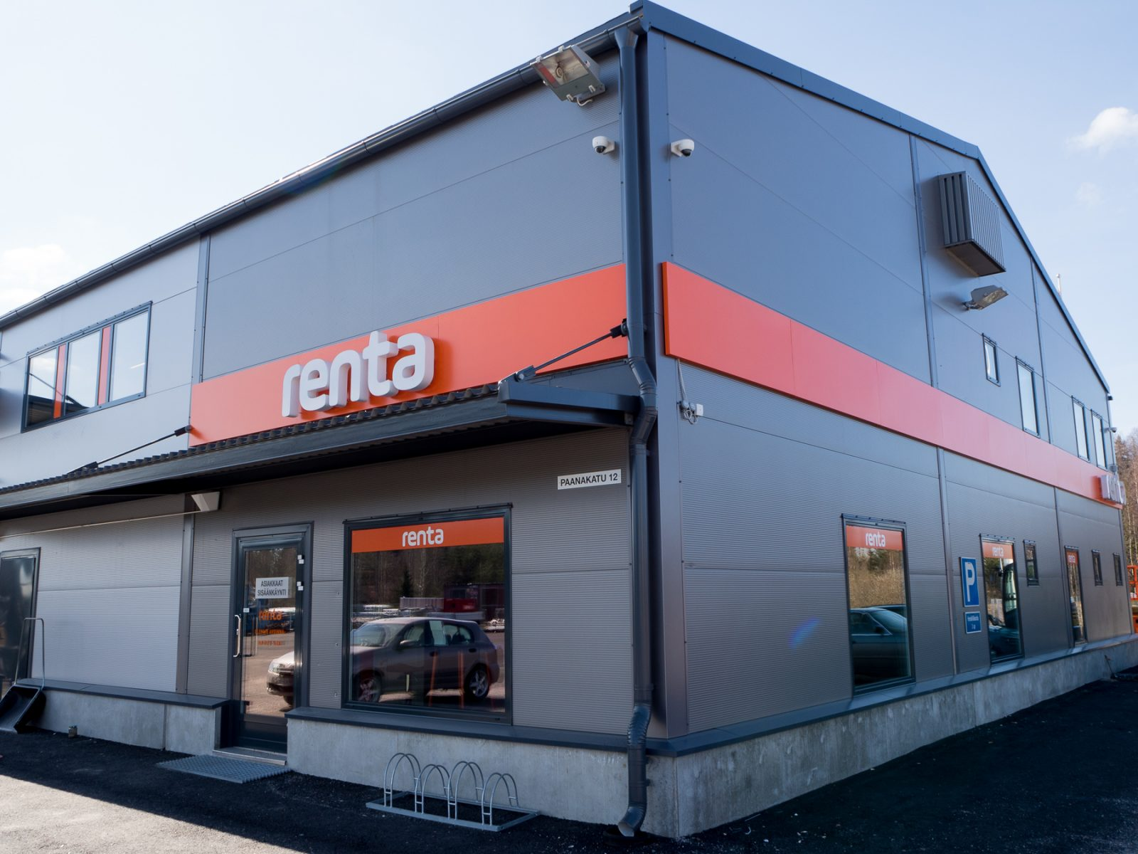 Renta store in Finland